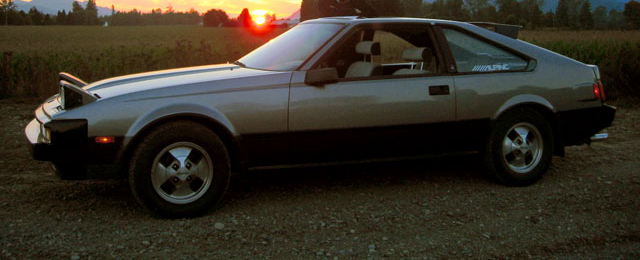 Cropped version of the original photo of a 1982 Toyota Celica Supra L-Type